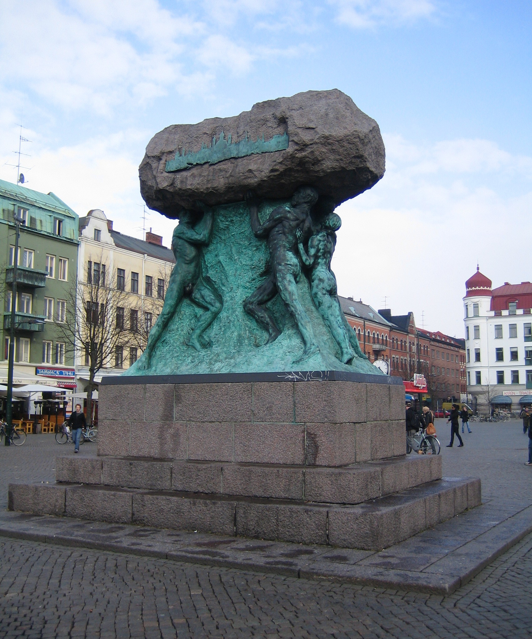 The statue "Arbetets ära" (Glory of labor), by Axel Ebbe. It is situated on the square Möllevångstorget in Malmö.